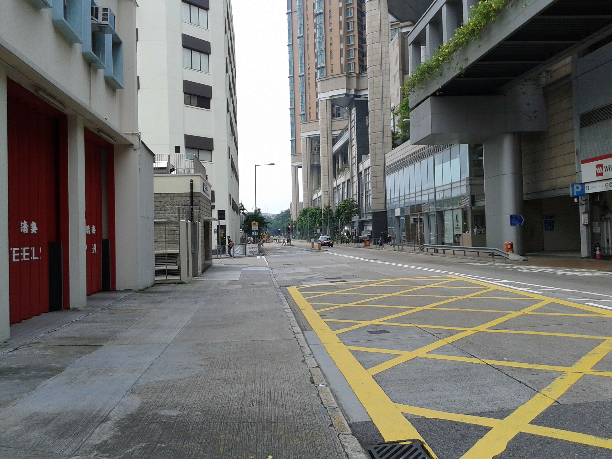 Po Lun Street (Lai Chi Kok, Kowloon, Hong Kong)中文（香港）: 寶輪街 (香港九龍荔枝角)